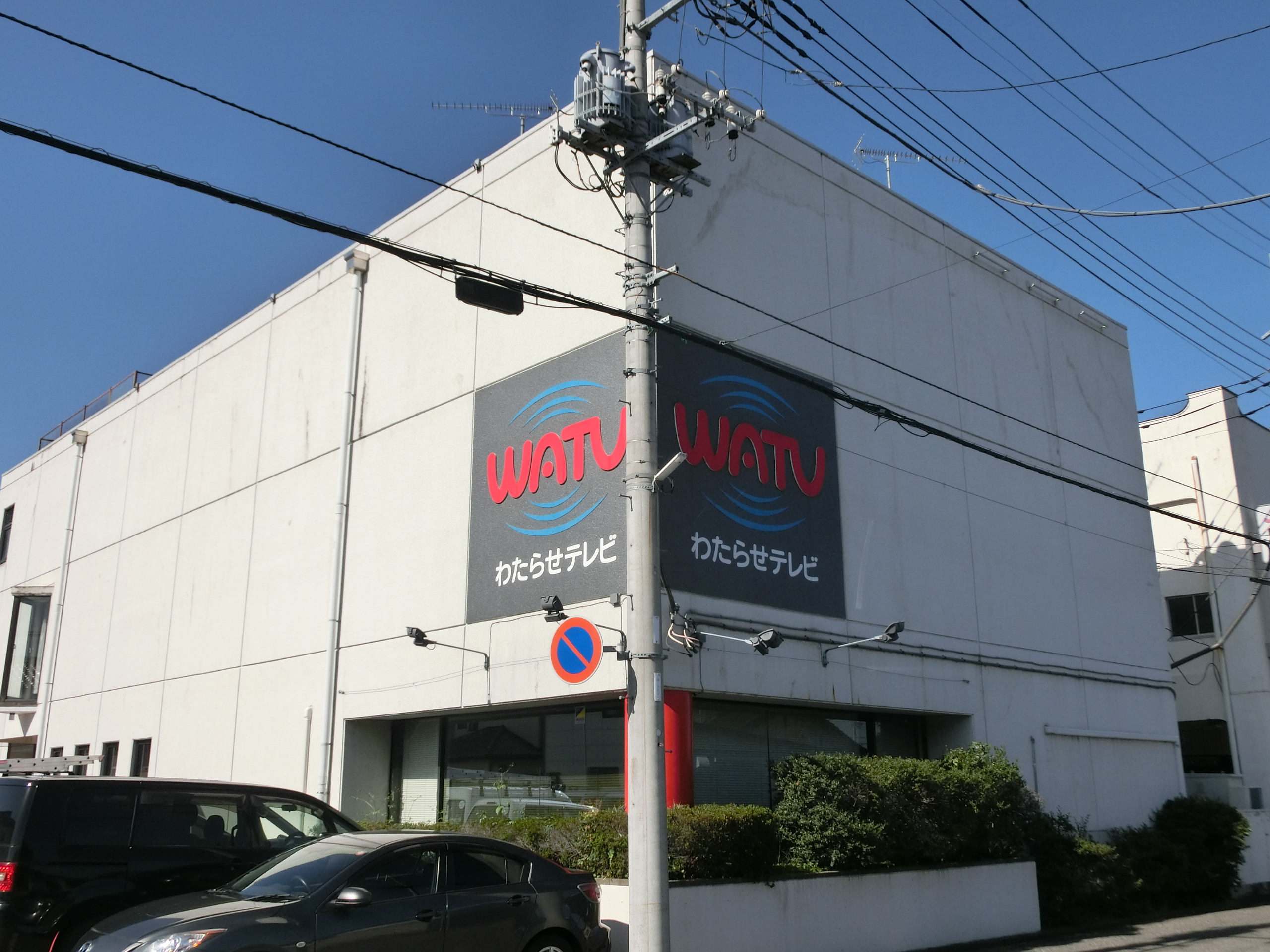 Watarase Television Head Office